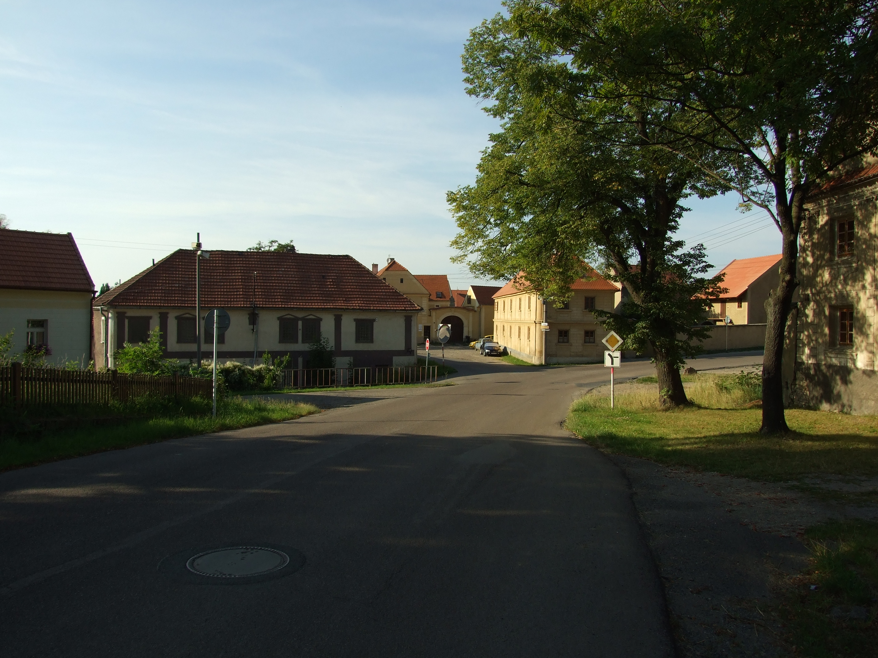 Town of Dobrovíz (near Prague and Kladno) and its surrounding nature in Central Bohemian region, CZhelp